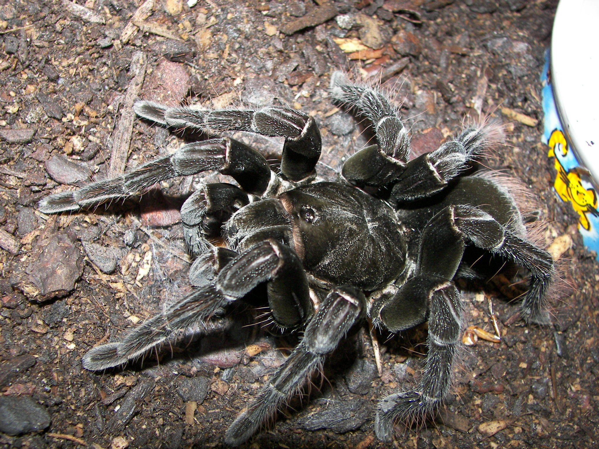 Female Pamphobeteus antinous, frontal view.